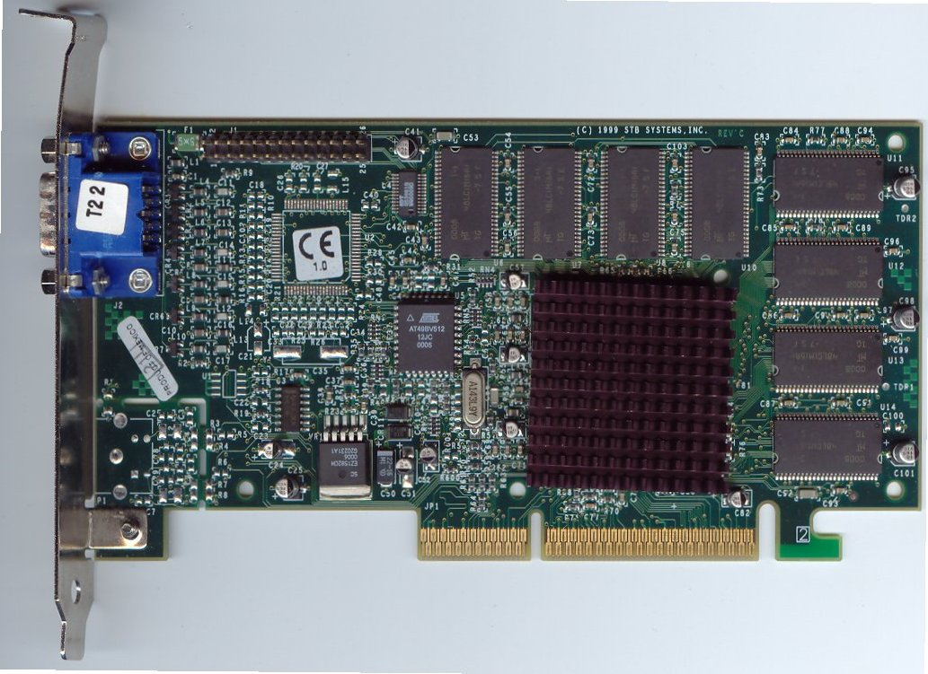 A en:3dfx Voodoo3 2000 AGP. Scanned by me.